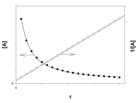 Second order